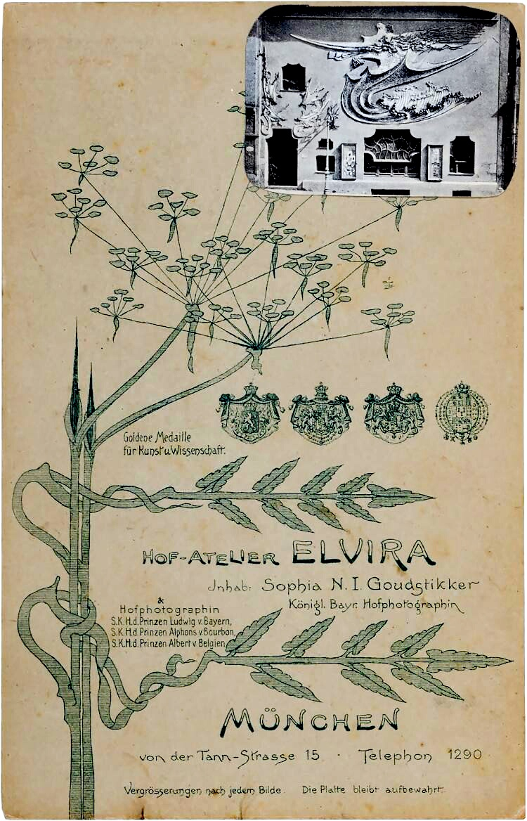 Reverse side of albumen print of Isadora Duncan, 1904. Full-page ornate logo; with small later offset print showing the atelier's Art Nouveau facade.